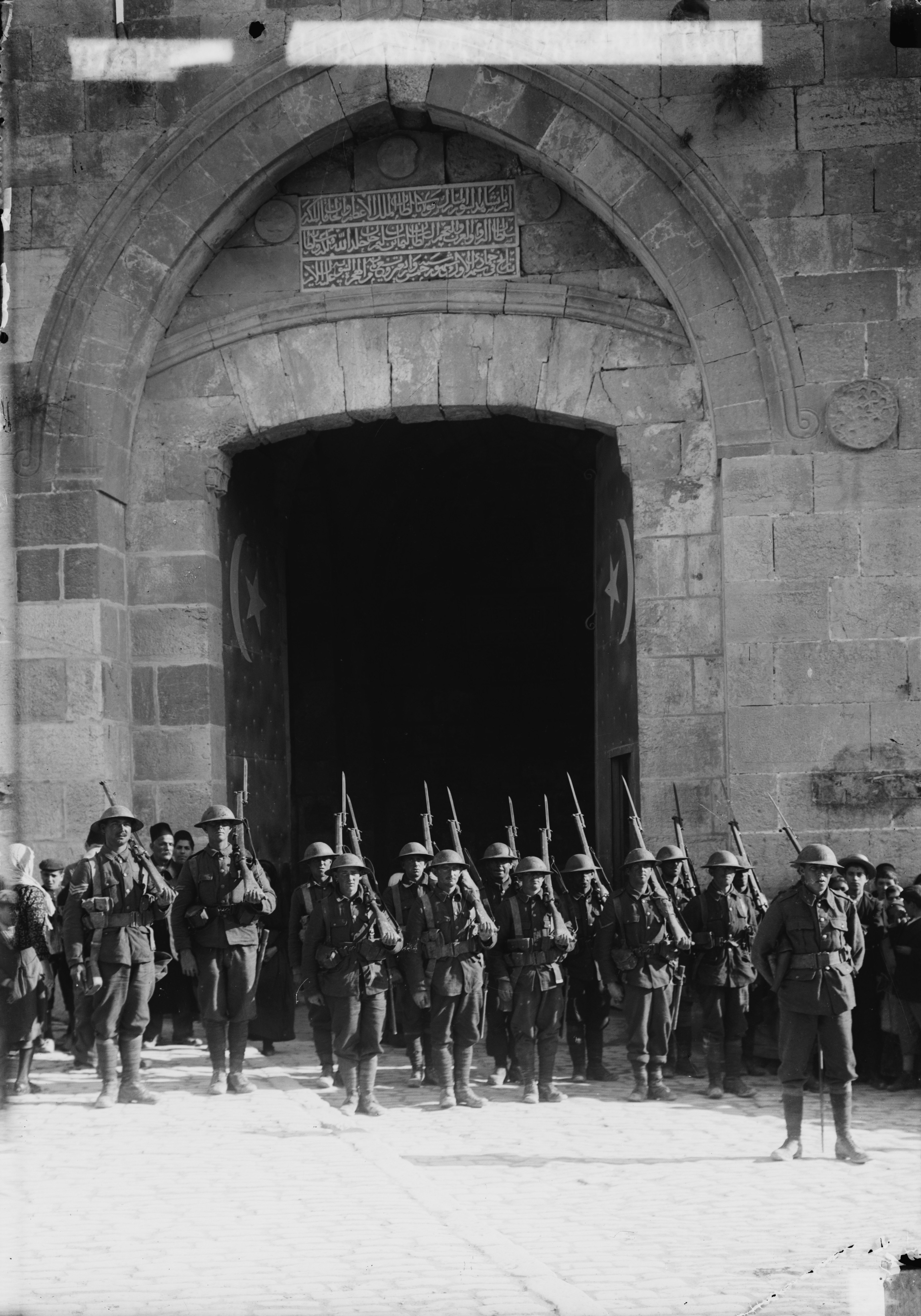 The surrender of Jerusalem to the British, December 9, 1917. First British guard at the Jaffa Gate